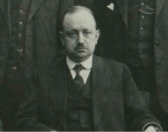 Johan Rückert